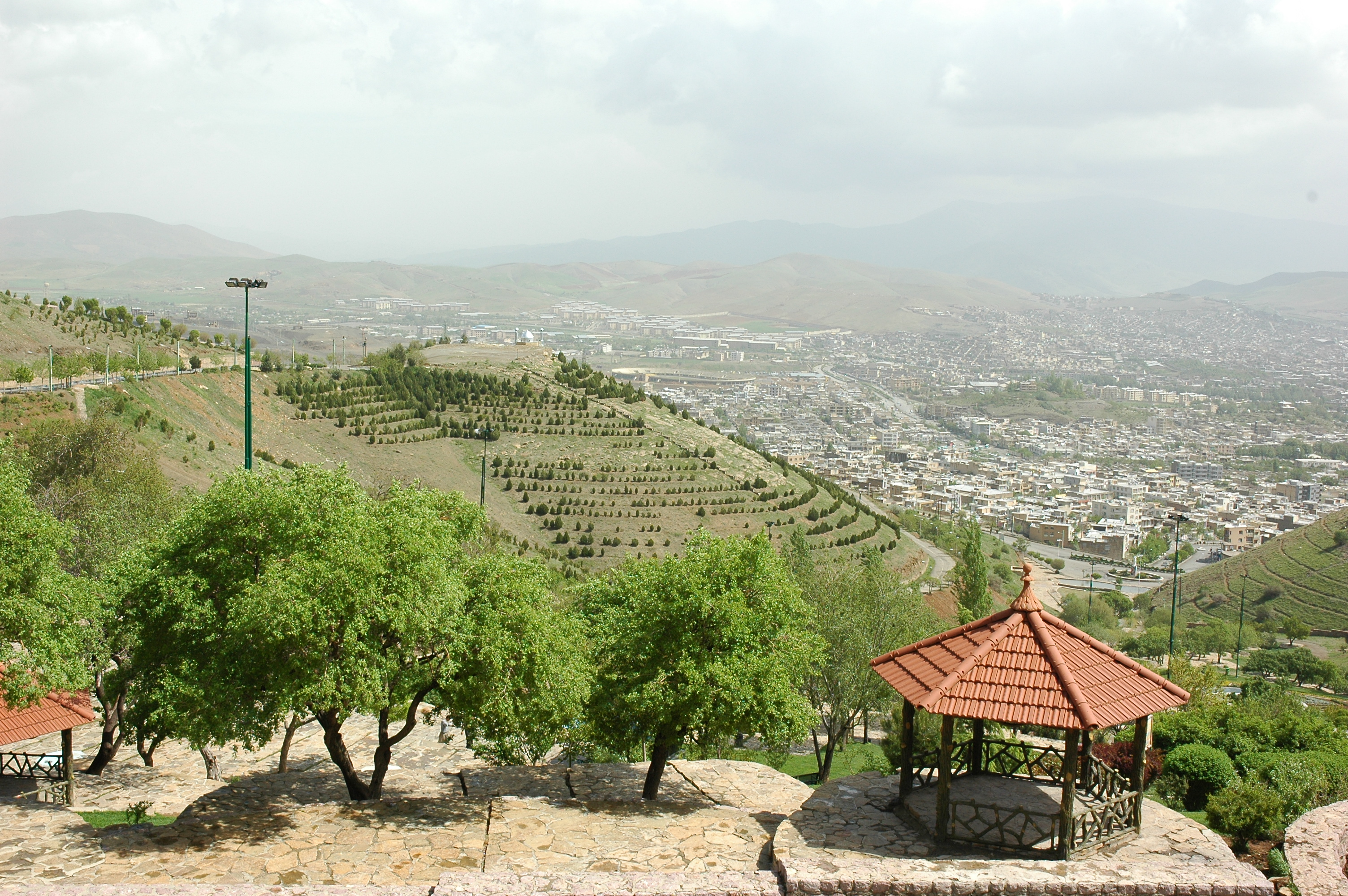 The title "Senandaj" is wrong. The correct form is "Sanandaj" Author: Ebrahim Badakhshan. License Free.